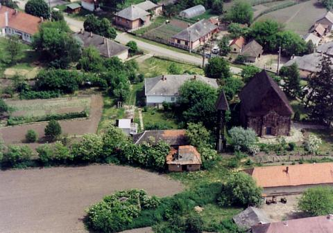 Karcsa, Hungary, aerialphotography